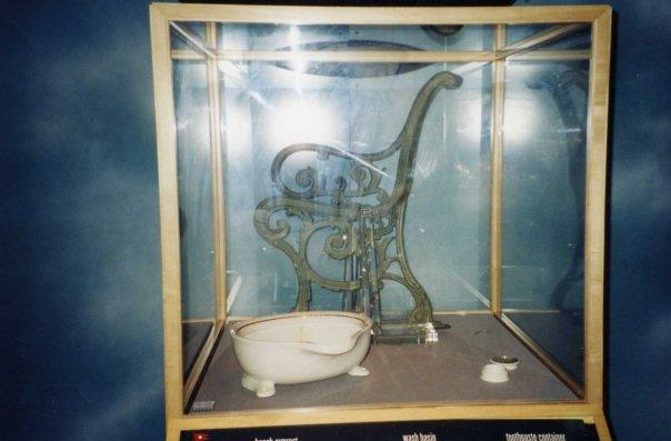 Picture of washbasin and chair from Titanic.